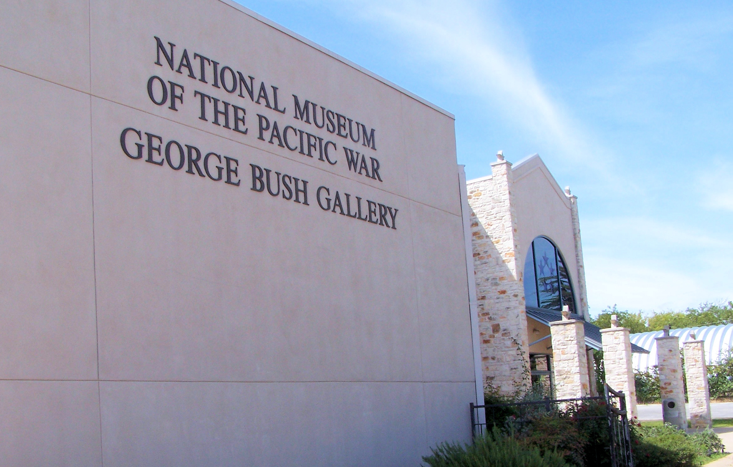 The old entrance to the National Museum of the Pacific War in Fredericksburg, Texas, United States.